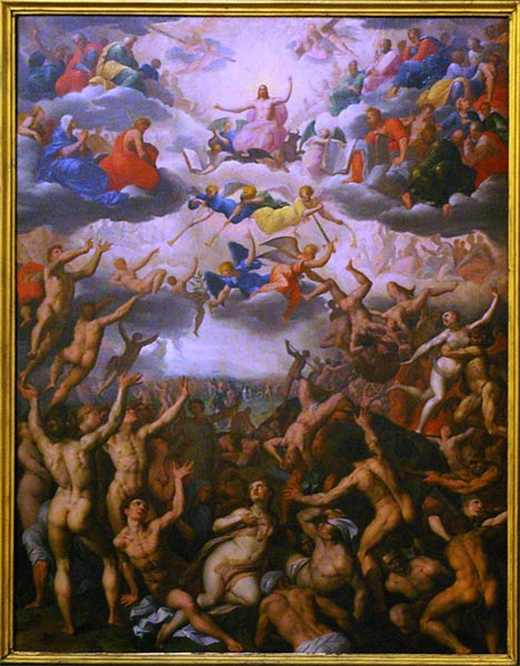 Memorial Triptych to Christopher Plantin. Central panel of the Last Judgment